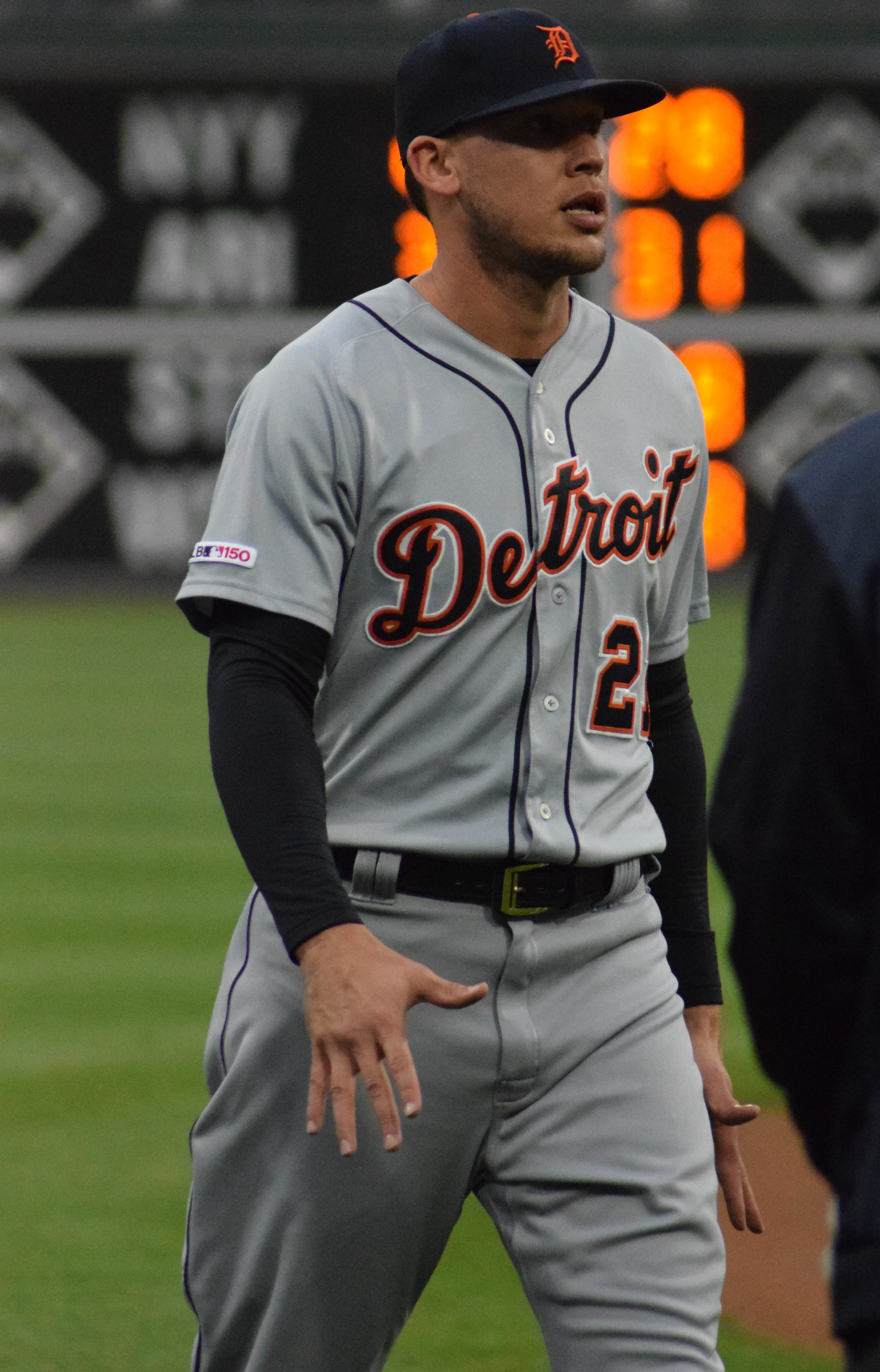 Jacoby Jones